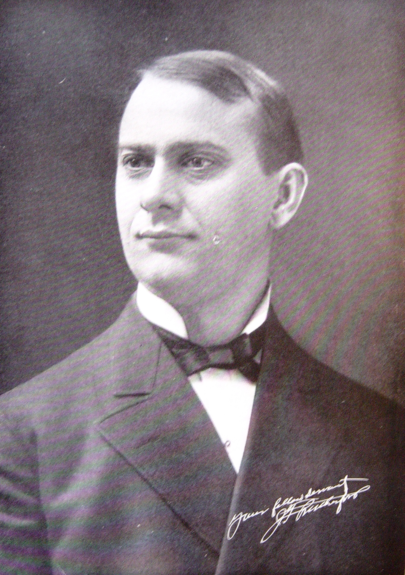 Picture of Joseph F. Rutherford from the 1911 Bible Students Convention Souvenir Booklet. At the time this picture was taken, Rutherford was serving as chief legal counsel for Pastor Charles Taze Russell. Rutherford became President of the Watchtower Bible and Tract Society in 1917 and later renamed the movement Jehovah's Witnesses. Rutherford died in 1942.